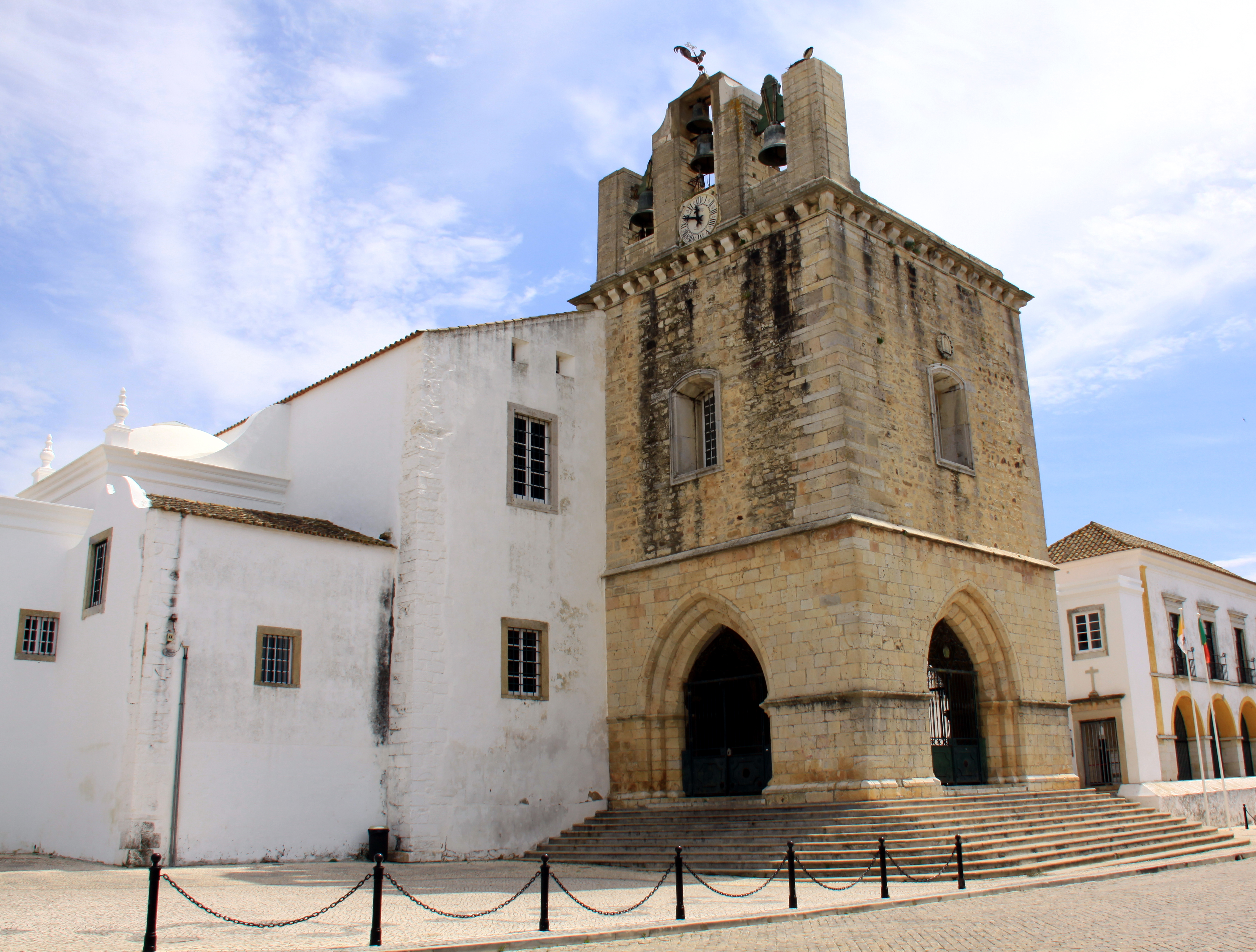 Faro Igreja da Sé (Cathedral)